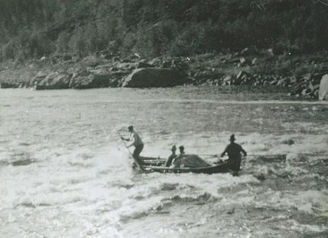 The German gold prospector Werner Thiede and his men on the Ivalojoki River, Finland, 1938.